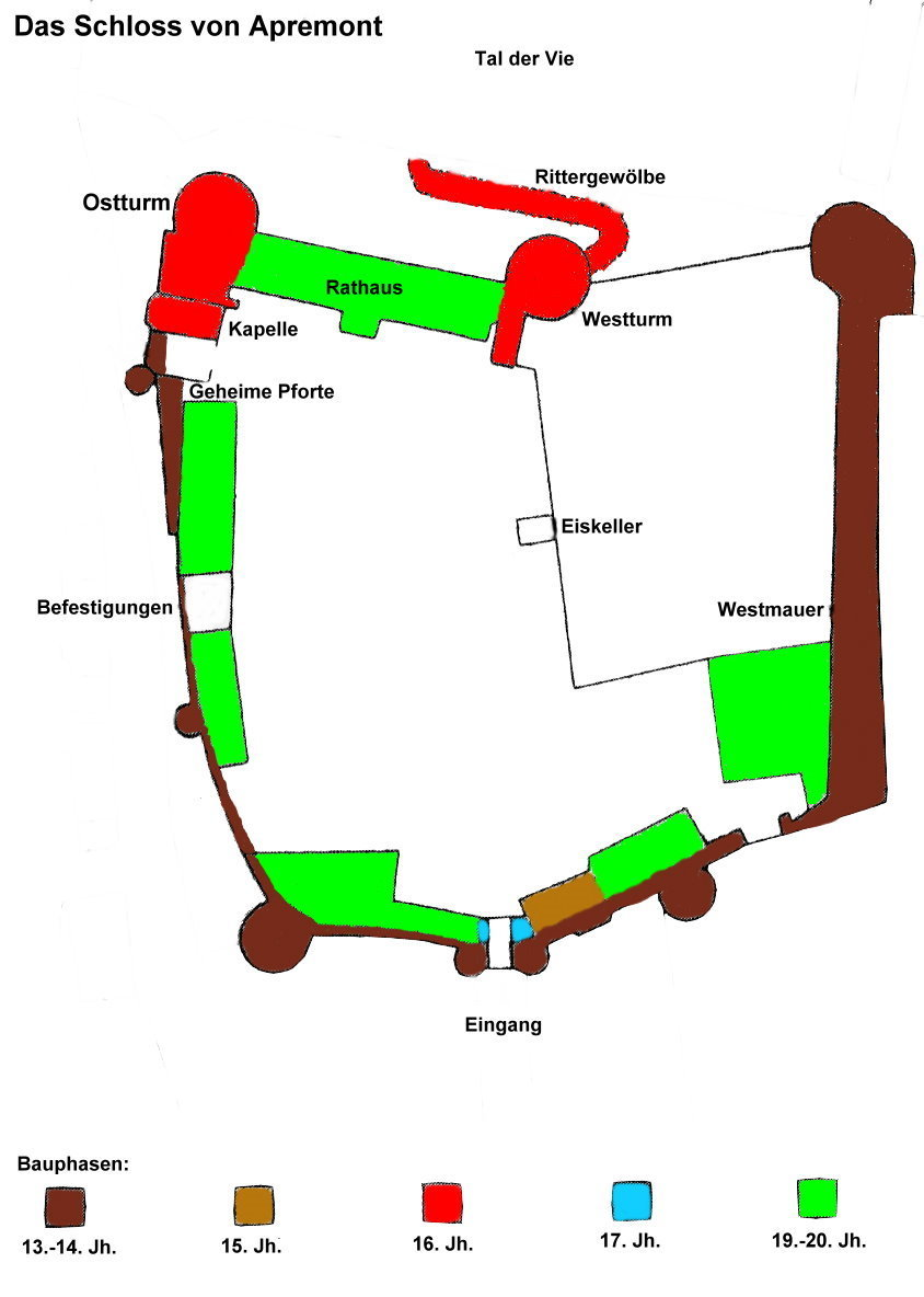 Apremont: castle map